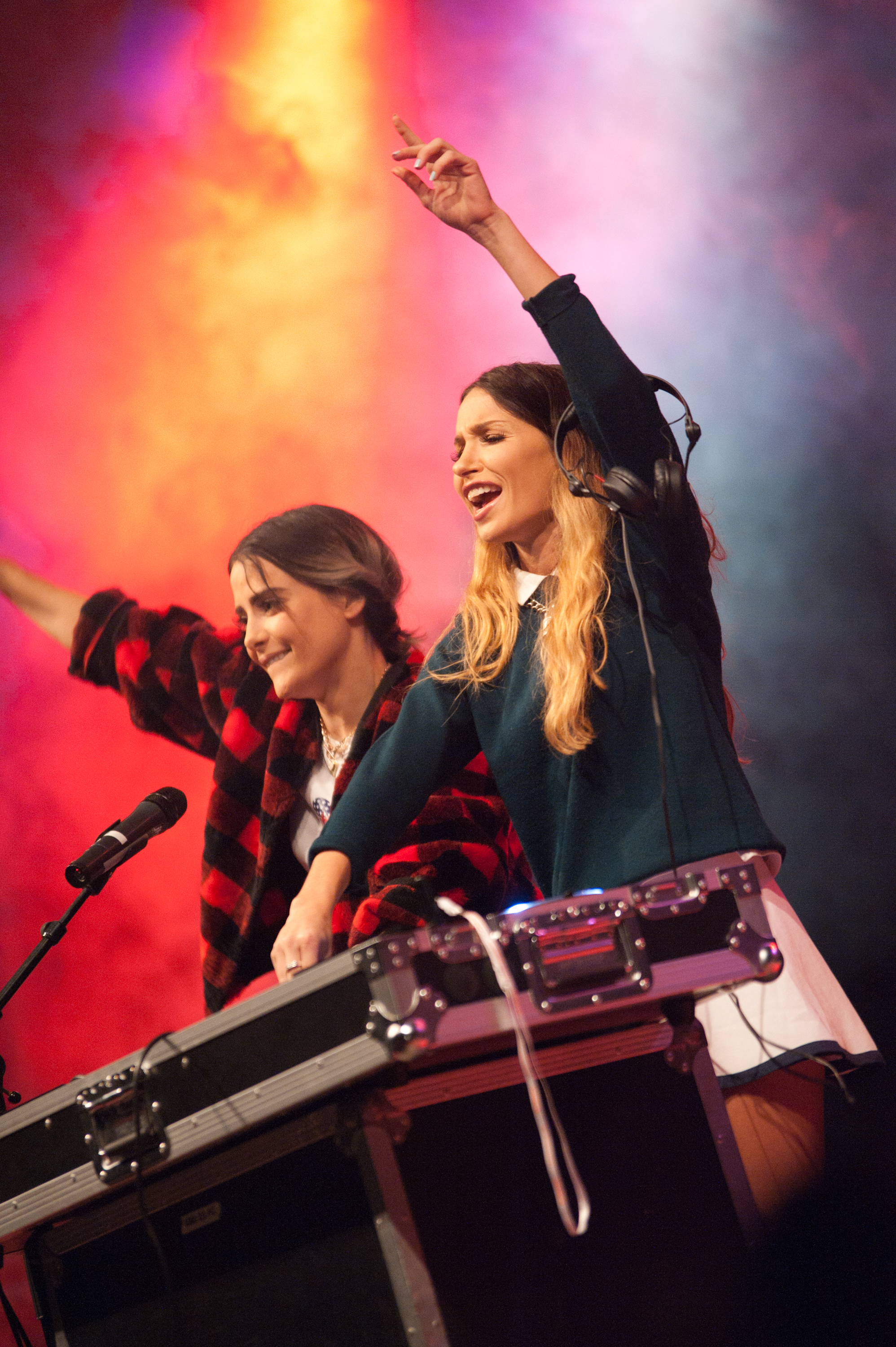 Rebecca & Fiona, the swedish DJ duo